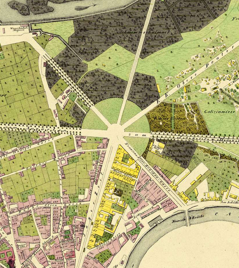 Map of Vienna approx. 1830, Detail (Praterstern)